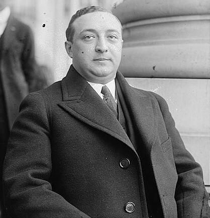 Nathan D. Perlman, Congressman from New York.